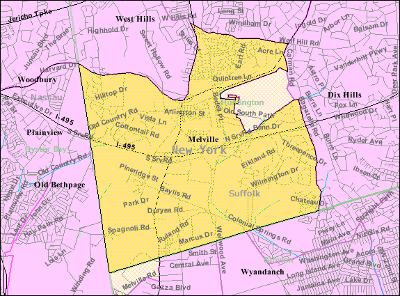 U.S. Census 2000 reference map for Melville